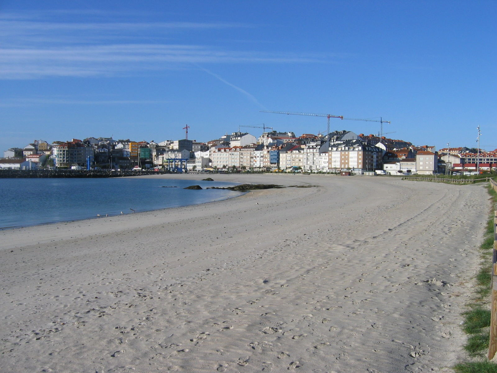 Beach of Baltar in Portonovo, in the North of Spain.